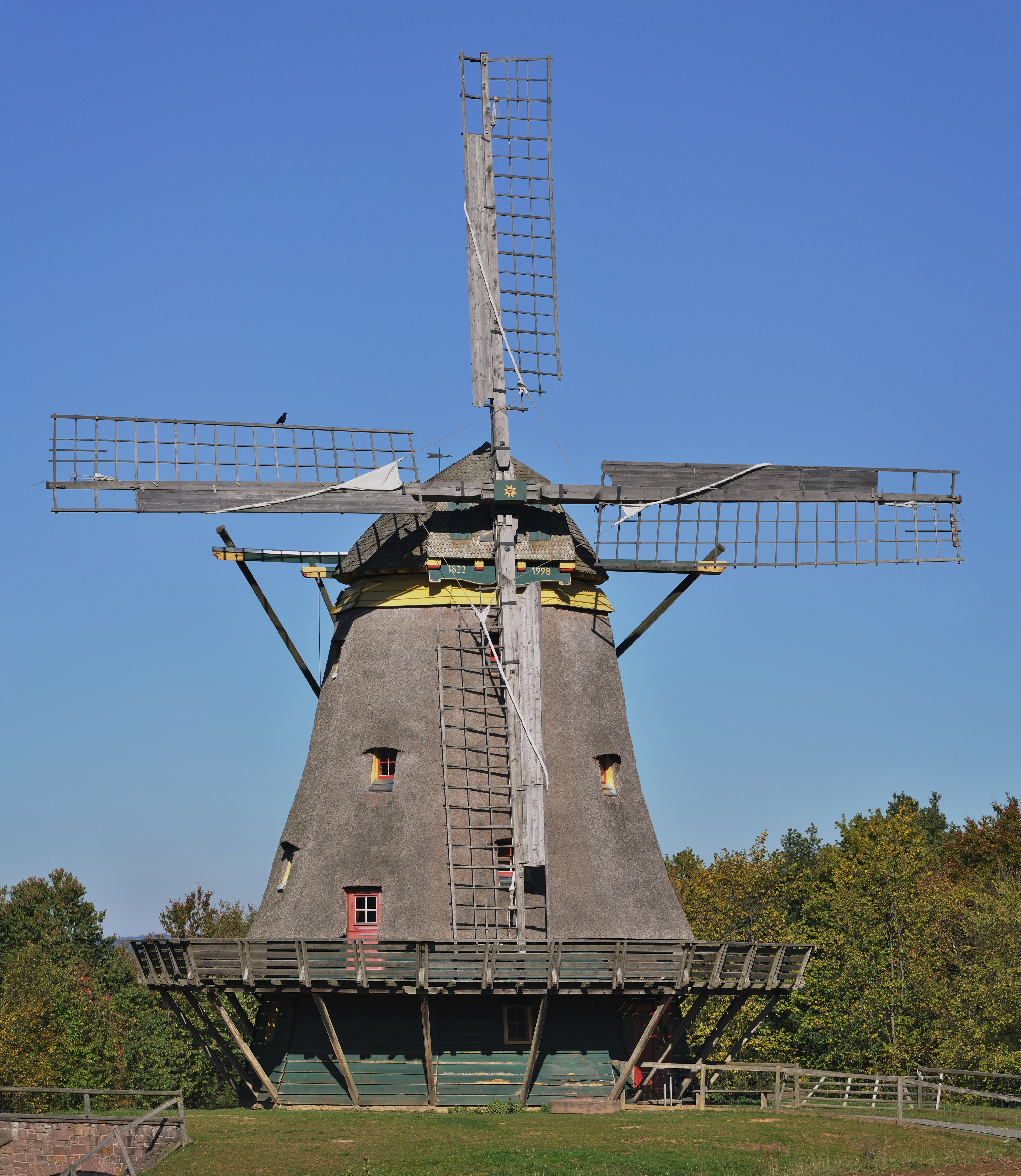 Smock mill from Borsfleth in Hessenpark, Germany.